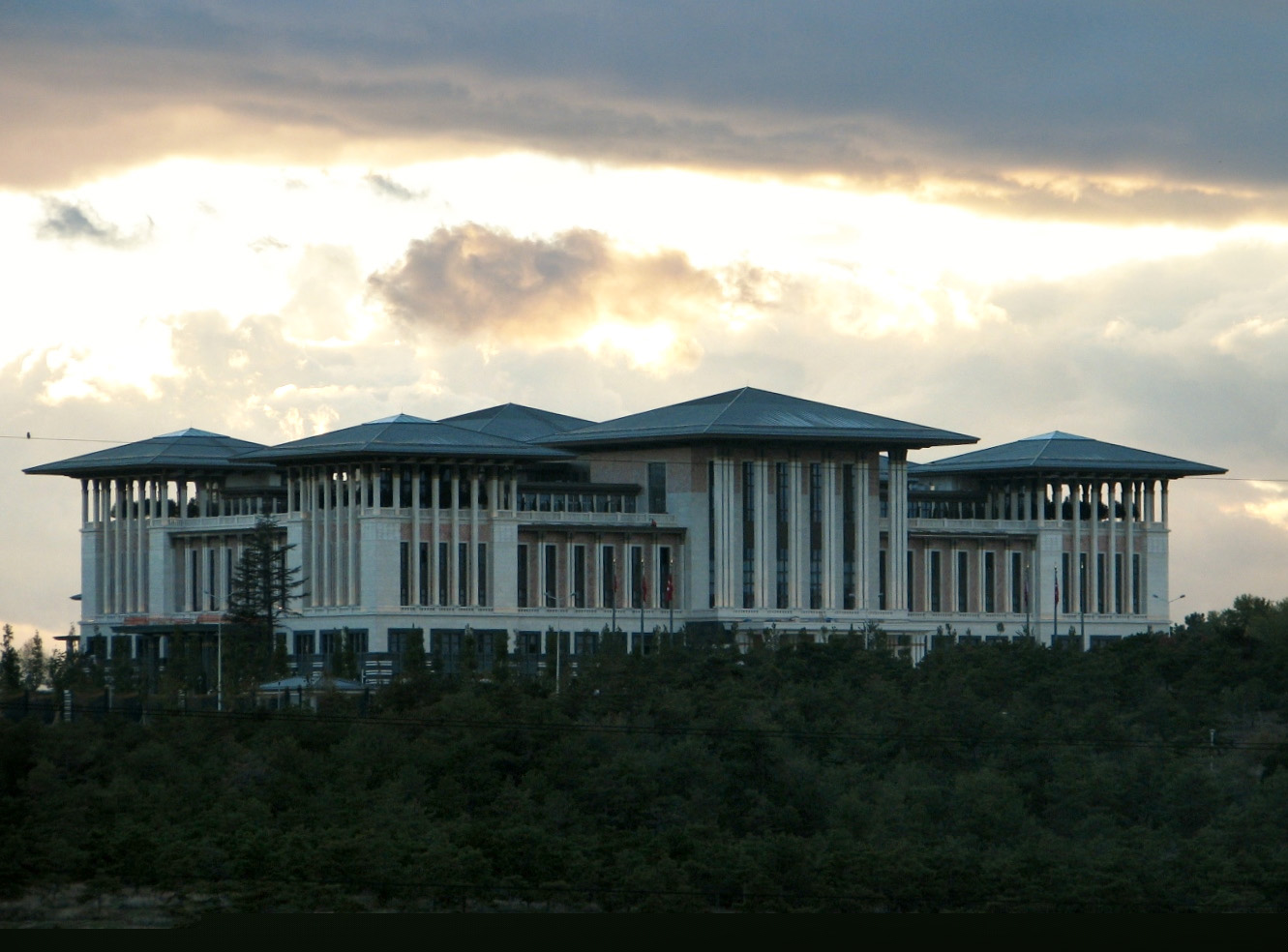 New Presidential Compound in Ankara, AOÇ (Beştepe)